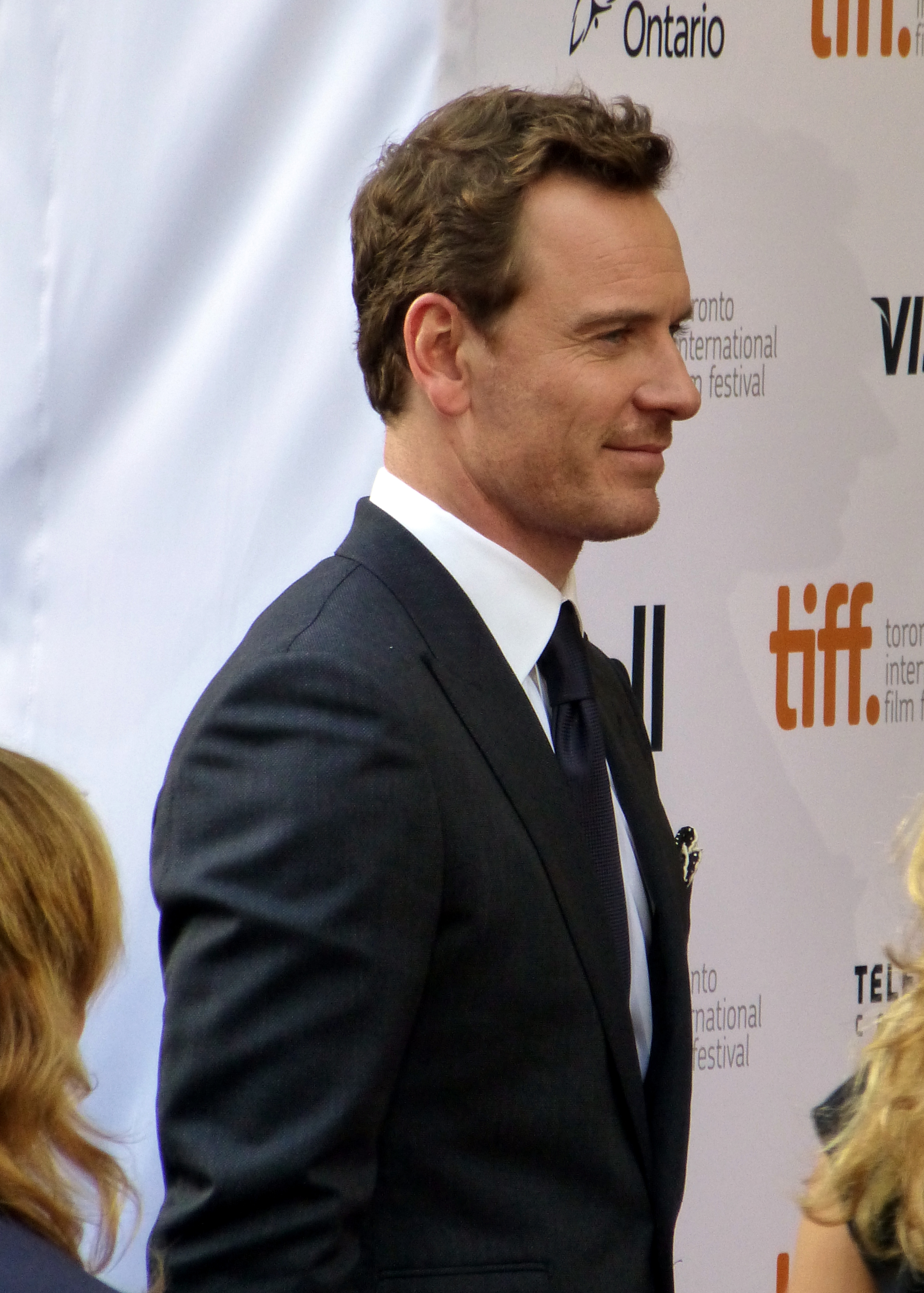 Michael Fassbender at the premiere of 12 Years a Slave, 2013 Toronto Film Festival